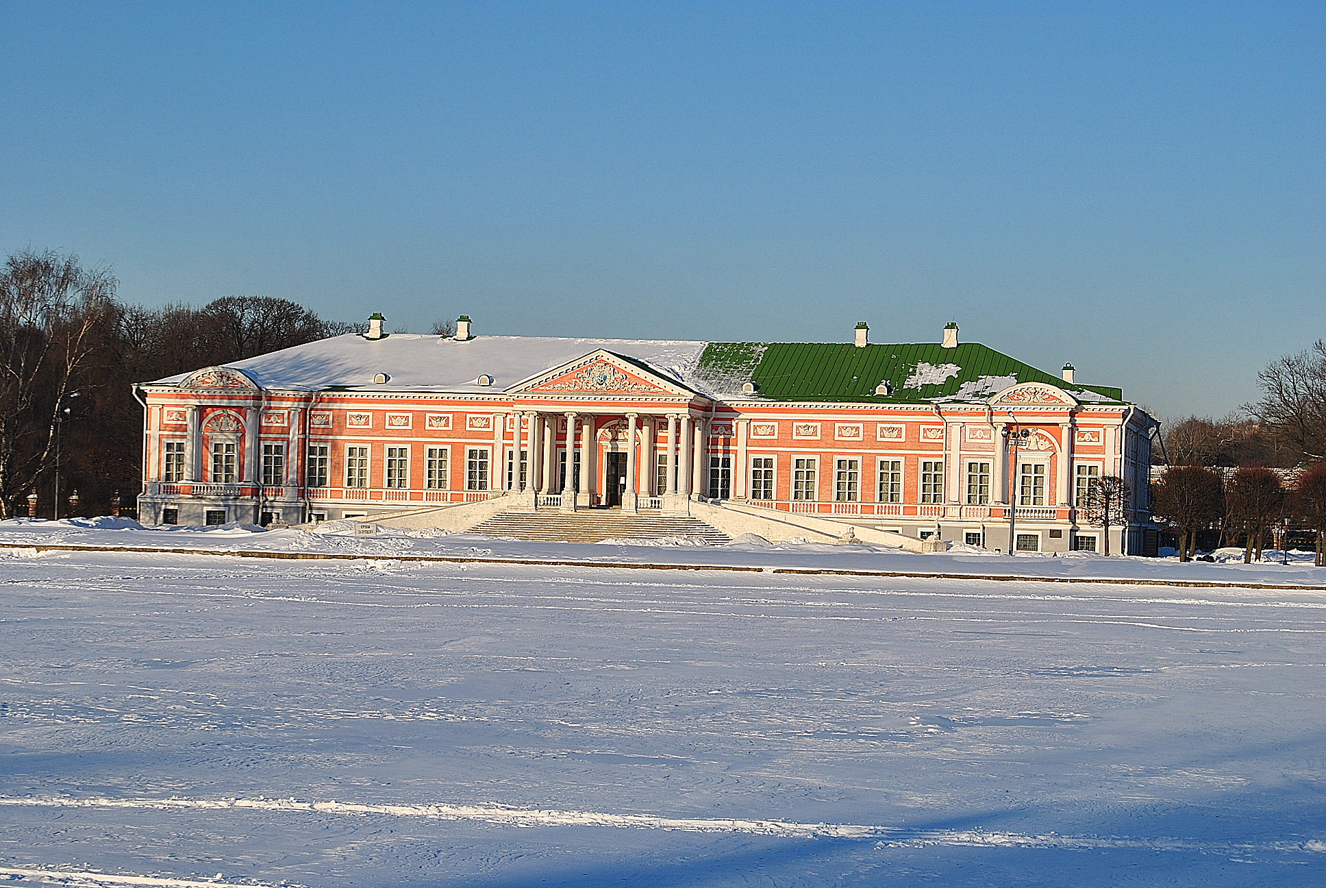 Дворец ((Большой дом)